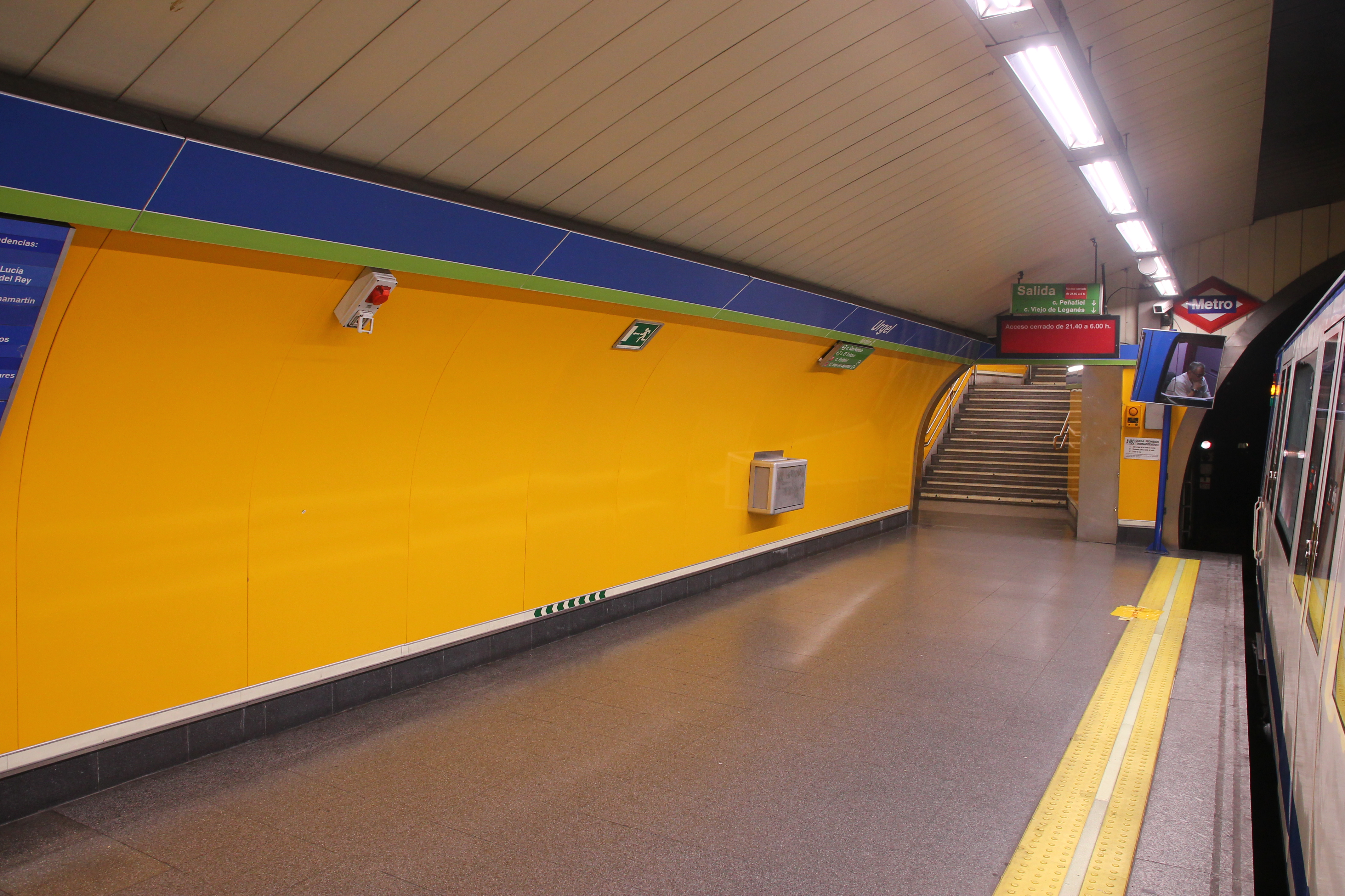 Estación de Urgel